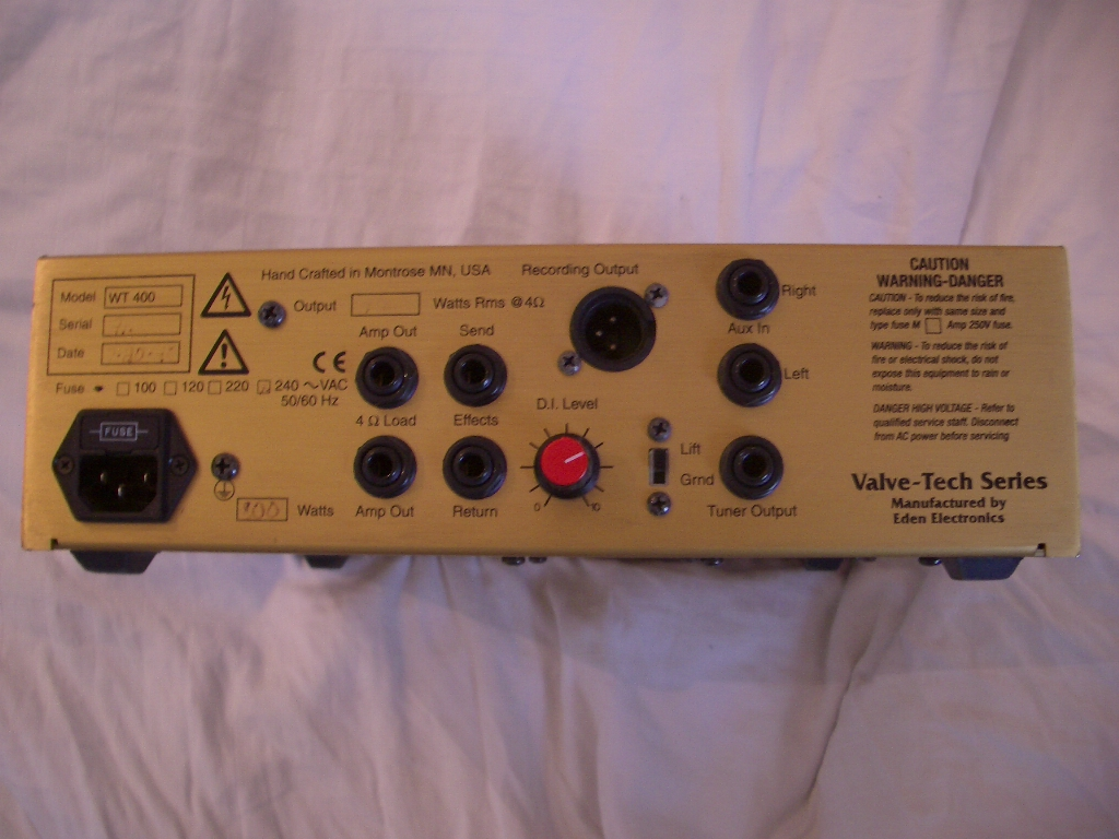 Eden Electronics World Tour Bass Amplifiers WT-400 Traveler Plus (1997, Valve-Tech Series)